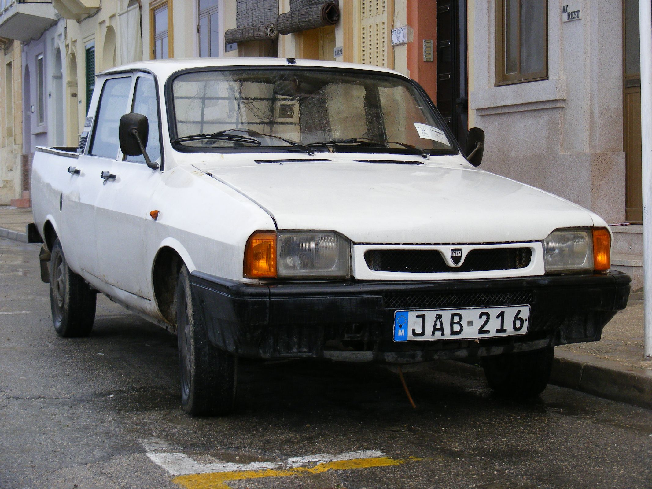 Maltese Dacia 1307 Pick-Up Feb 2011